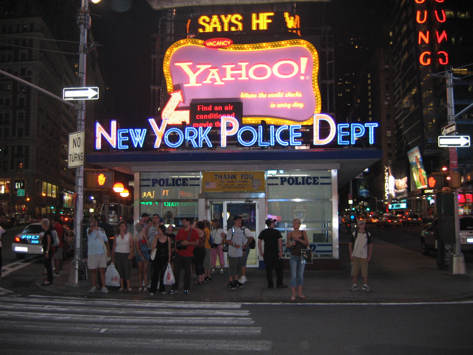 NYPD kiosk at Times Square in New York City